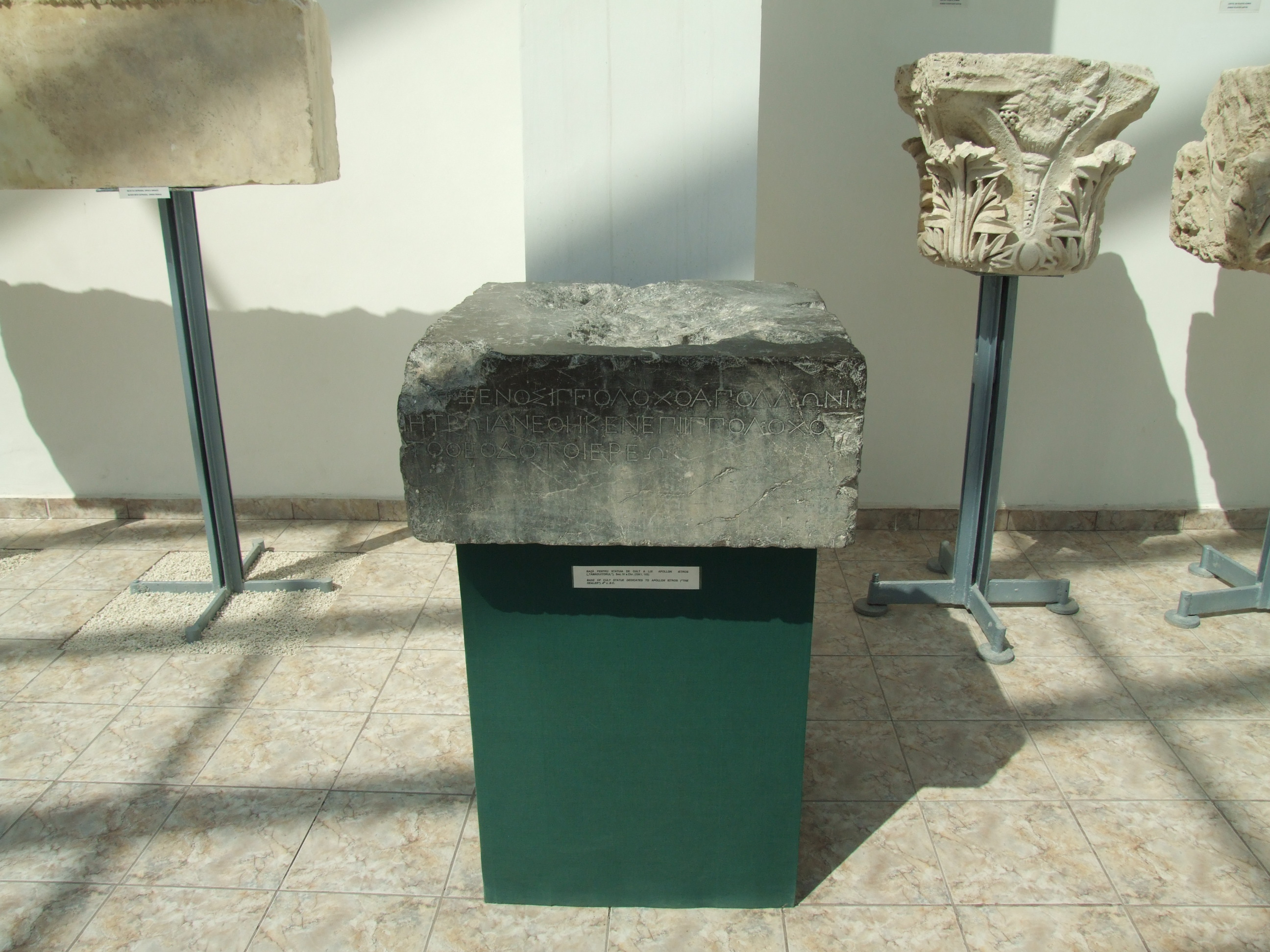 Base of a cult statue in Histria dedicated to Apollon Ietros, i.e. Apollo the healer, 4th century B.C. It reads: _ _ _ΞΕΝΟΣ ΙΠΠΟΛΟΧΟ ΑΠΟΛΛΩΝΙ ΙΗΤΡΩΙ ΑΝΕΘΗΚΕΝ ΕΠΙ ΙΠΠΟΛΟΧΟ [ _?] ΤΟ ΘΕΟΔΟΤΟ ΙΕΡΕΩ Translated it means: _ _ _xenos, son of Hippolochos, dedicated this to Apollo the Doctor during the priesthood of Hippolochos son of Theodotos. Comments: the full name of the dedicator is broken away, but there is space for only 3 or perhaps 4 letters in the fractured area. Possibilities include, for example: Theoxenos, Timoxenos, Philoxenos, etc. the letter forms and the absence of the upsilon in the genitive singular suggests a date very early in the 4th century B.C. the cuttings on the top of the base are not typical of a free-standing figure with two delineated feet. Perhaps it was a statue with feet covered by a robe or other drapery. – Transcription, translation and comments supplied by Greek scholar SGM. JMK (talk) 22:58, 2 July 2011 (UTC)